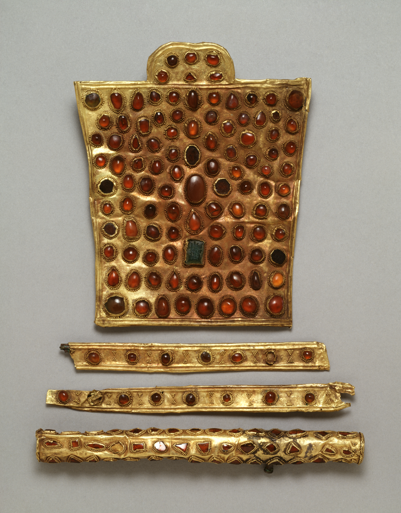 This fine and rare set of horse trappings is decorated with stones in beaded settings- a style Hunnish metalworkers favored. The large piece is a chamfron, which was worn on the horse's head above the eyes. This one is ornamental rather than defensive and indicated the wealth and power of the horse's owner. The two thin strips are bridle mounts, which probably covered the bridle or reins near the horse's head, where they would be best displayed. The gold tube is the handle of a Hunnish whip, called a "nagaika." The open end held the leather of the whip, which would be secured in place by the bronze rivet. The Huns had no spurs and instead used these whips to urge their horses to run.